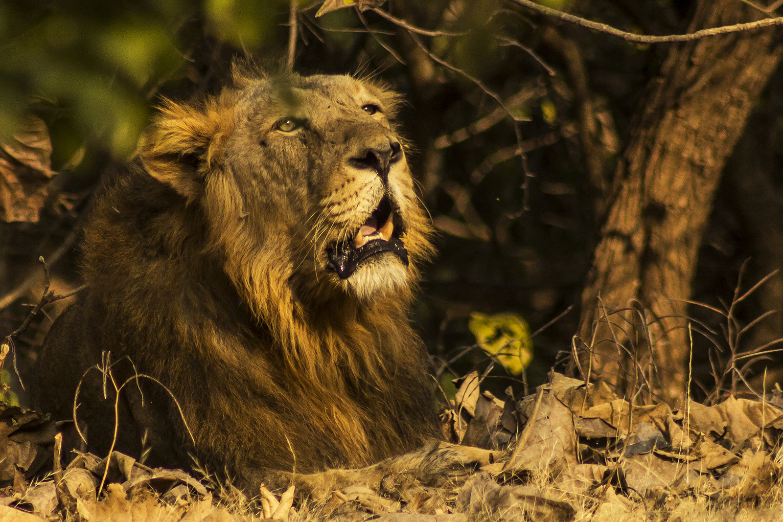 Male Asiatic Lion having a sun bath in Sasan Gir forest.